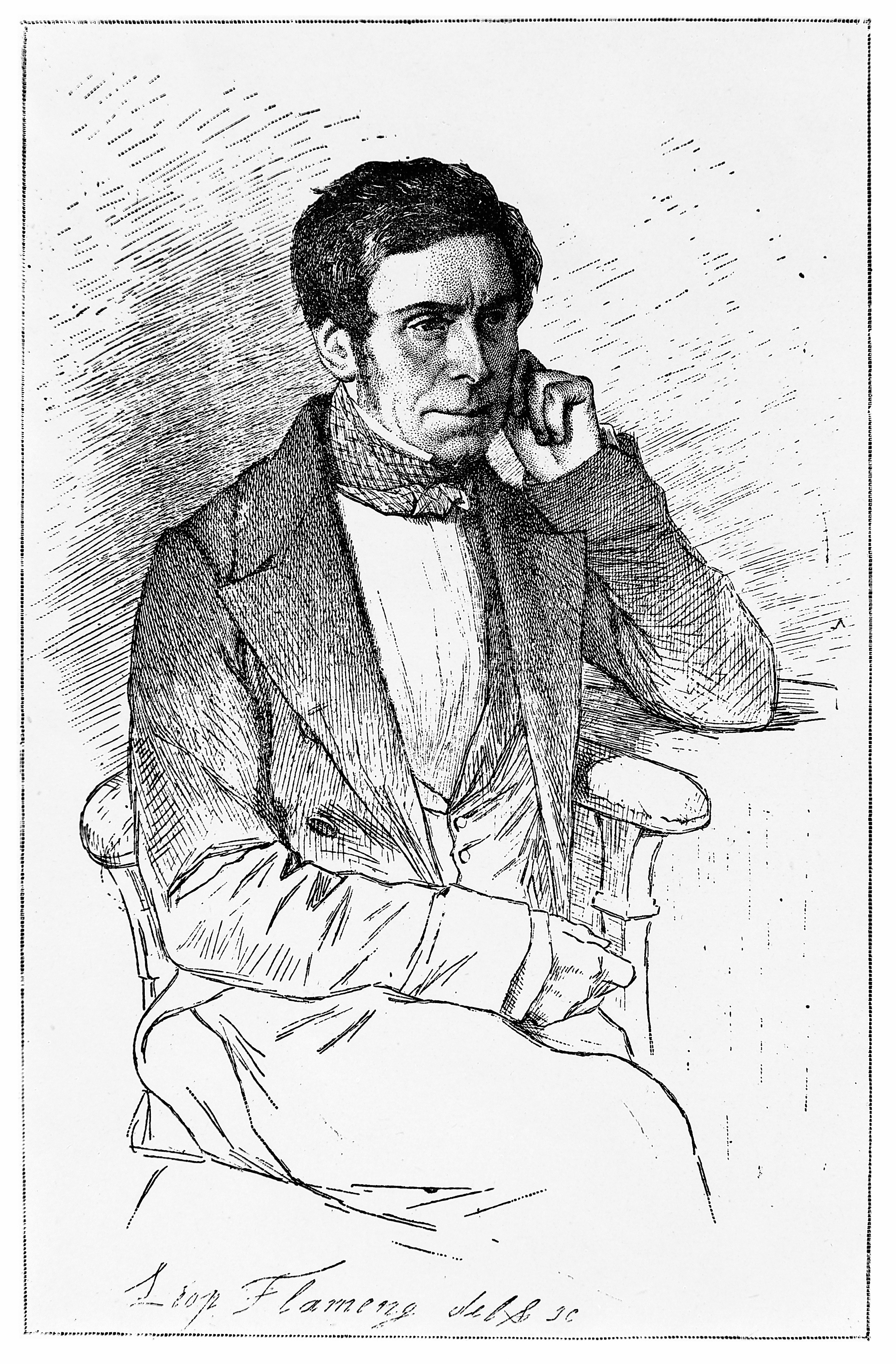 Portrait of Felix-Archimede Pouchet; three quarter length; left arm on desk. Wellcome Images Keywords: Félix-Archimède Pouchet